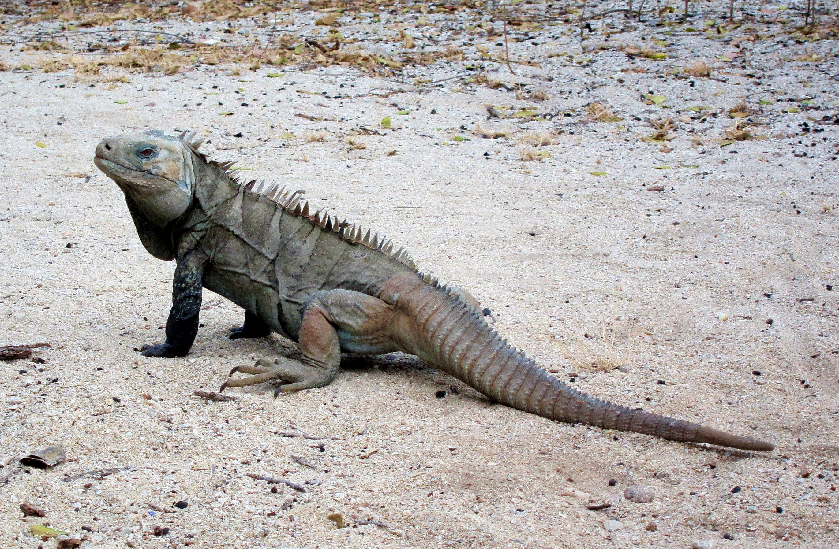 Cyclura ricordi, on Cabritos Island, Dominican Republic (12 February 2011).